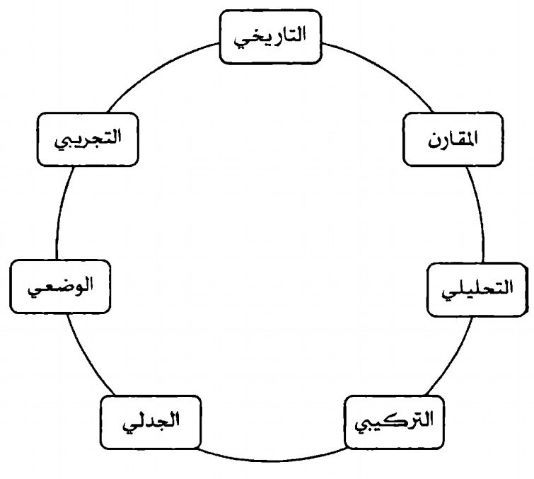 منهاج علم الاديان